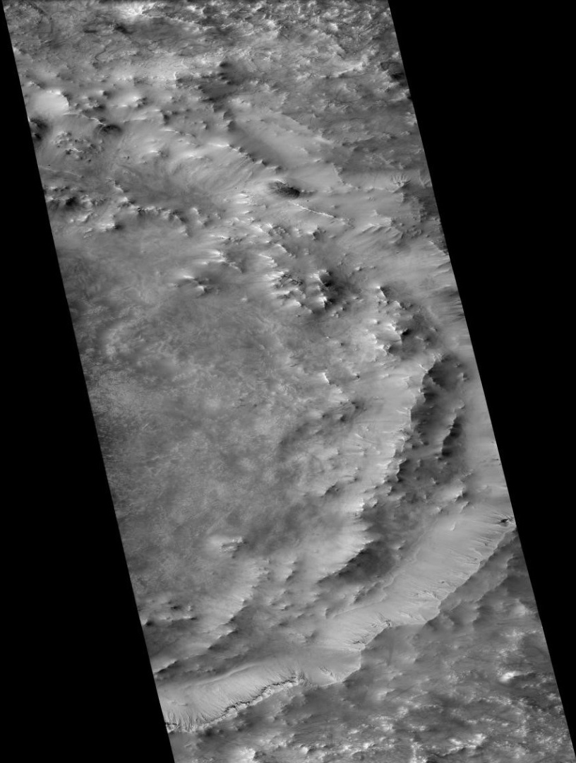 Ross Crater, as seen by CTX